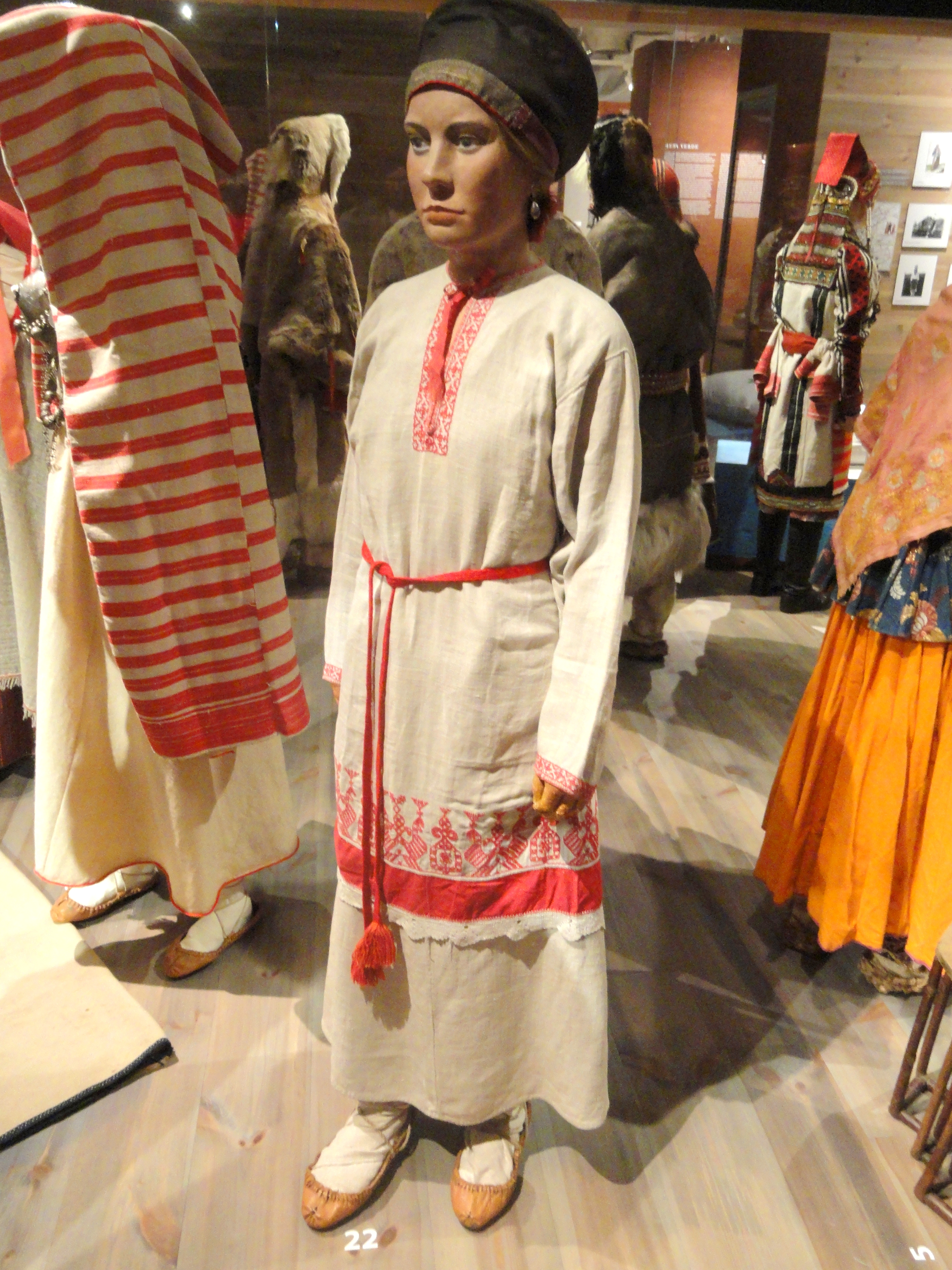 Clothing exhibit in the Museum of Cultures, Helsinki, Finland.